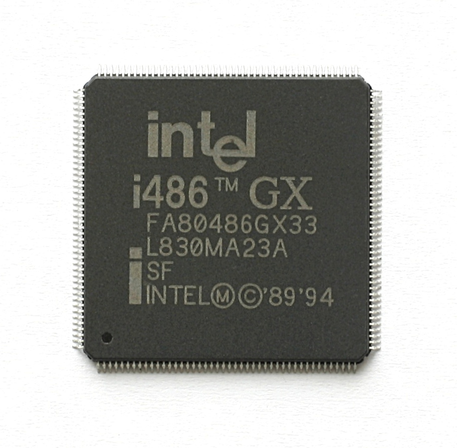 CPU Intel i486GXSF, 33MHz.